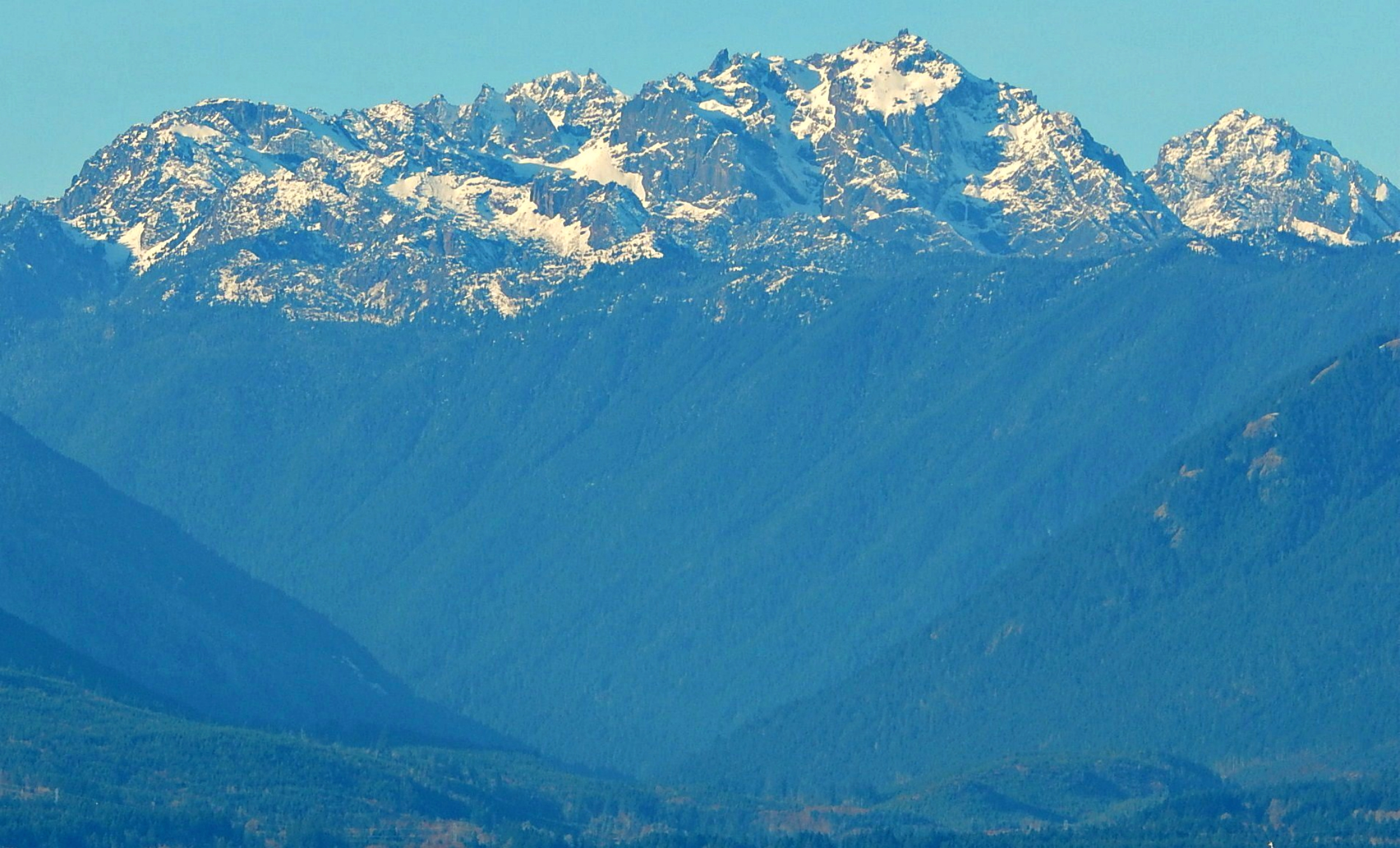 Mount Constance, third highest peak (after Olympus and Deception) in the Olympic mountain range in Washington state. Constance is the highest peak on the Olympic skyline seen from Seattle. This view from Hood Canal.